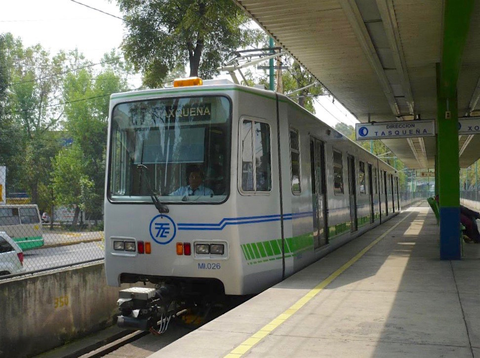 A light rail car on the Xochimilco light rail line in Mexico City, bound for Tasqueña/Taxqueña.